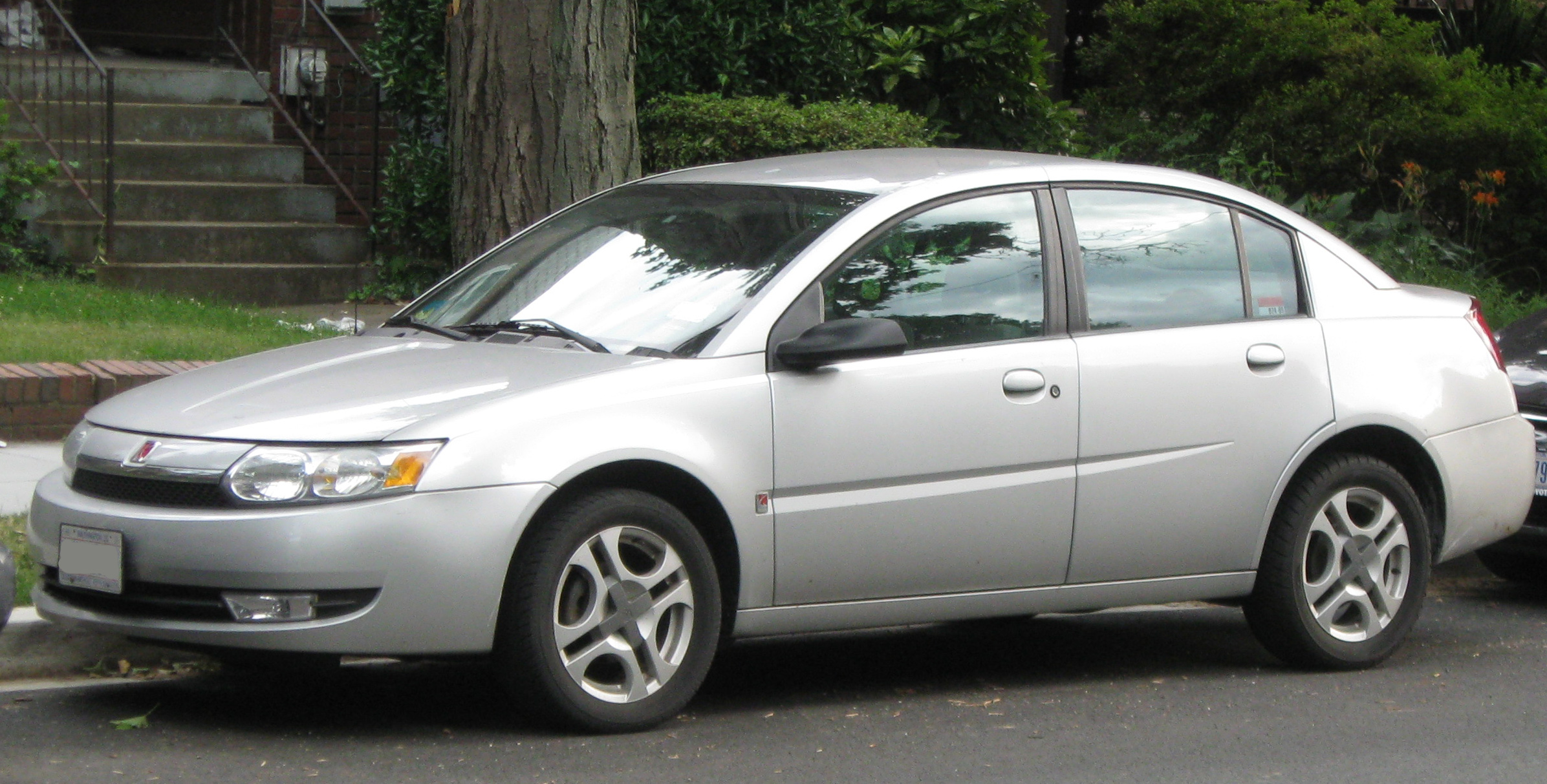 2003-2004 Saturn Ion photographed in Washington, D.C., USA.